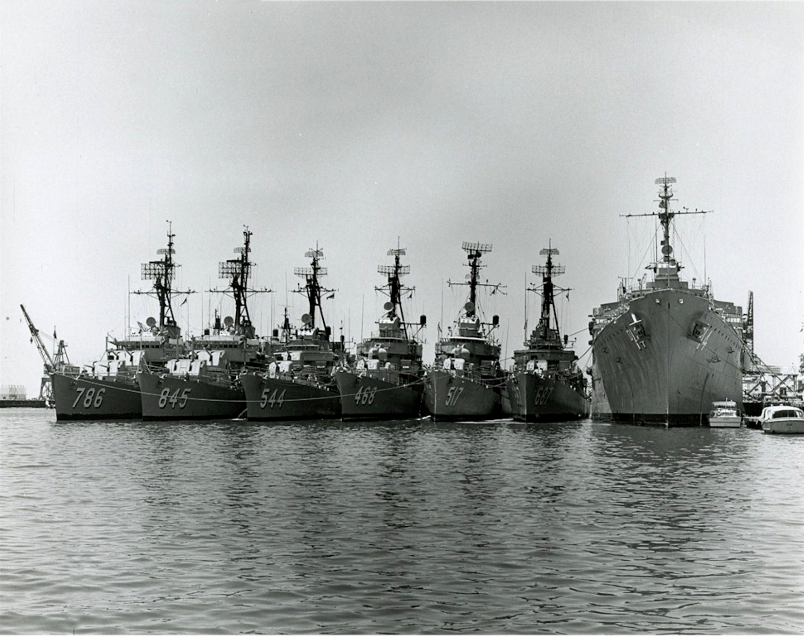 The U.S. Navy destroyer tender USS Dixie (AD-14) with six destroyers moored to her starboard side, circa 1970. The ships present are (inboard to outboard): USS Uhlmann (DD-687), USS Walker (DD-517), USS Taylor (DD-468), USS Boyd (DD-544), USS Bausell (DD-845) and USS Richard B. Anderson (DD-786). Note that each of the four Fletcher-class destroyers carries different equipment. The photo was taken before mid-1969, when Boyd, Taylor and Walker were decommissioned.